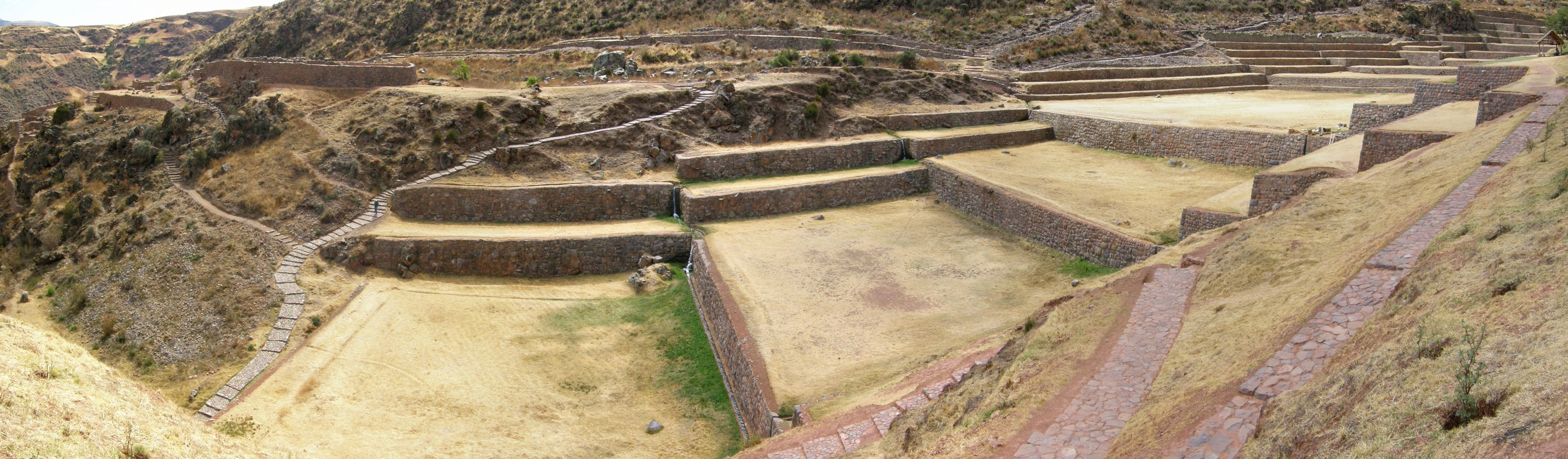 Terraces of Tipón